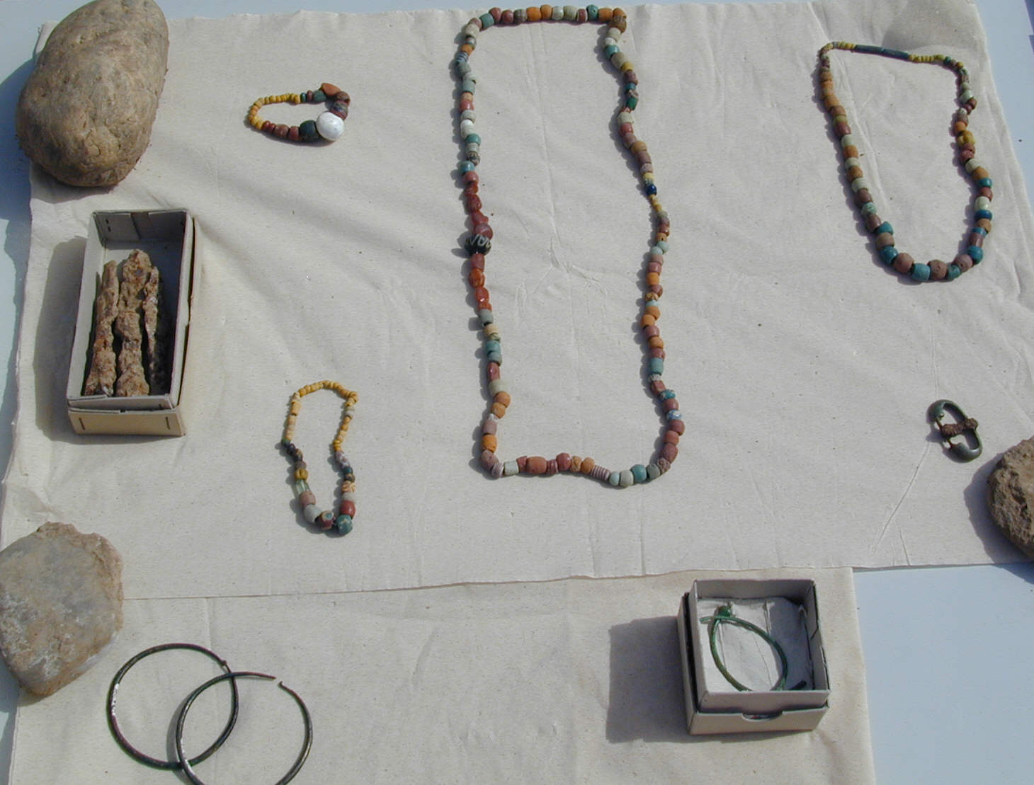 Jewellery out of Alamannic graveyards in Regierungsbezirk Freiburg, Germany. Around 6th and 7th century.